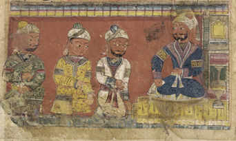 Folio from a Khamsa (Quintet) by Amir Khusraw Dihlavi; Nizamuddin Awliya with Three Attendants ca. 1450 or earlier Sultanate period Opaque watercolor and ink on paper H: 32.7 W: 24.2 cm India Purchase--Smithsonian Unrestricted Trust Funds, Smithsonian Collections Acquisition Program, and Dr. Arthur M. Sackler S1986.122.1